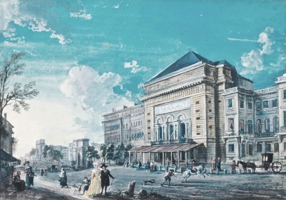 The first Théâtre de la Porte Saint-Martin (built 1783) on the Boulevard Saint-Martin in Paris. The building was destroyed by fire in 1871 and replaced with a new theatre in 1873. This watercolor is by Jean-Baptiste Lallemand, from 1790. On the left of the theater one can see the Porte Saint-Martin, and a bit further on the Porte Saint-Denis.